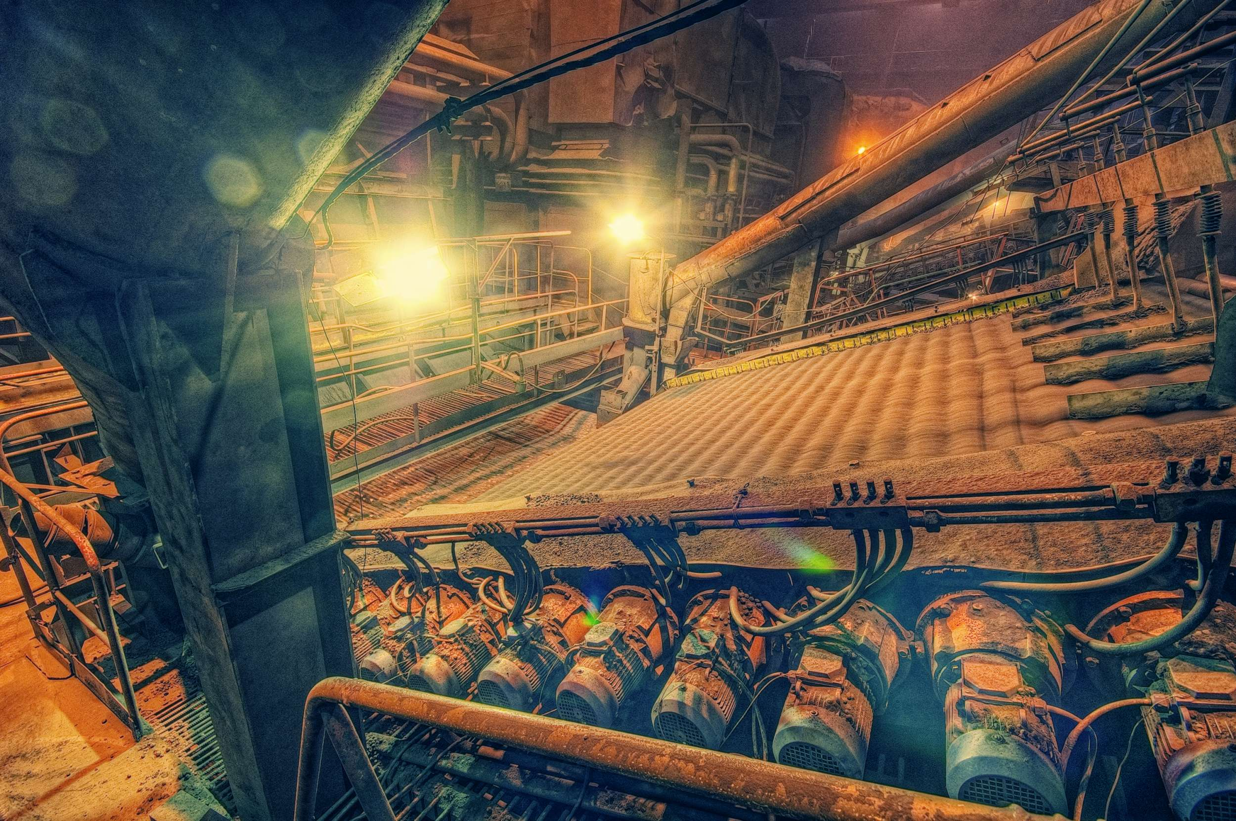 Roll feeder for green pellets